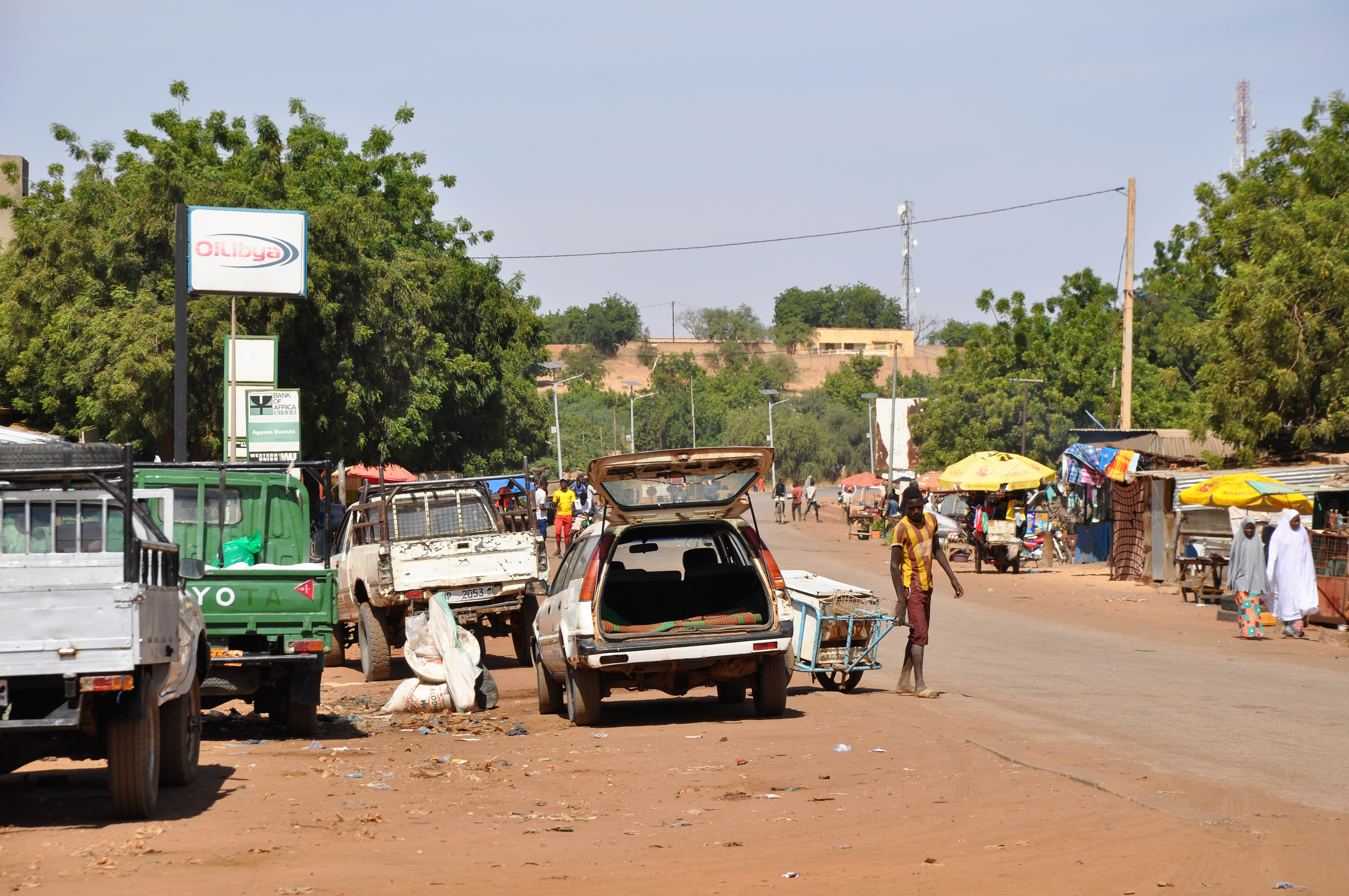 A street scene in the town centre of Dogontdoutchi, Niger (Department of Dogondoutchi; Dosso Region)